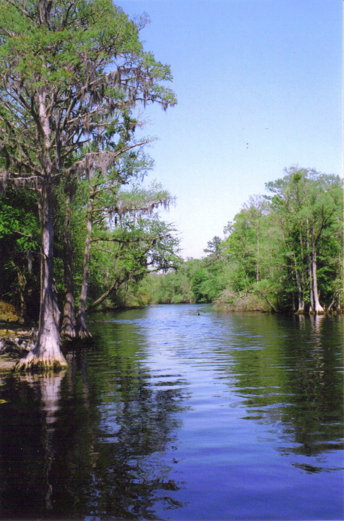 Cypress trees line the Lumber River in Lumber River State Park in Robeson County, North Carolina